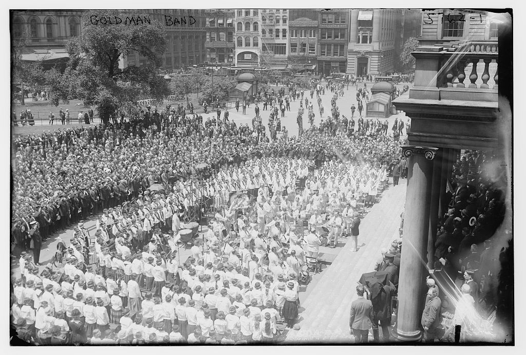 Title: Goldman Band Abstract/medium: 1 negative : glass ; 5 x 7 in. or smaller.